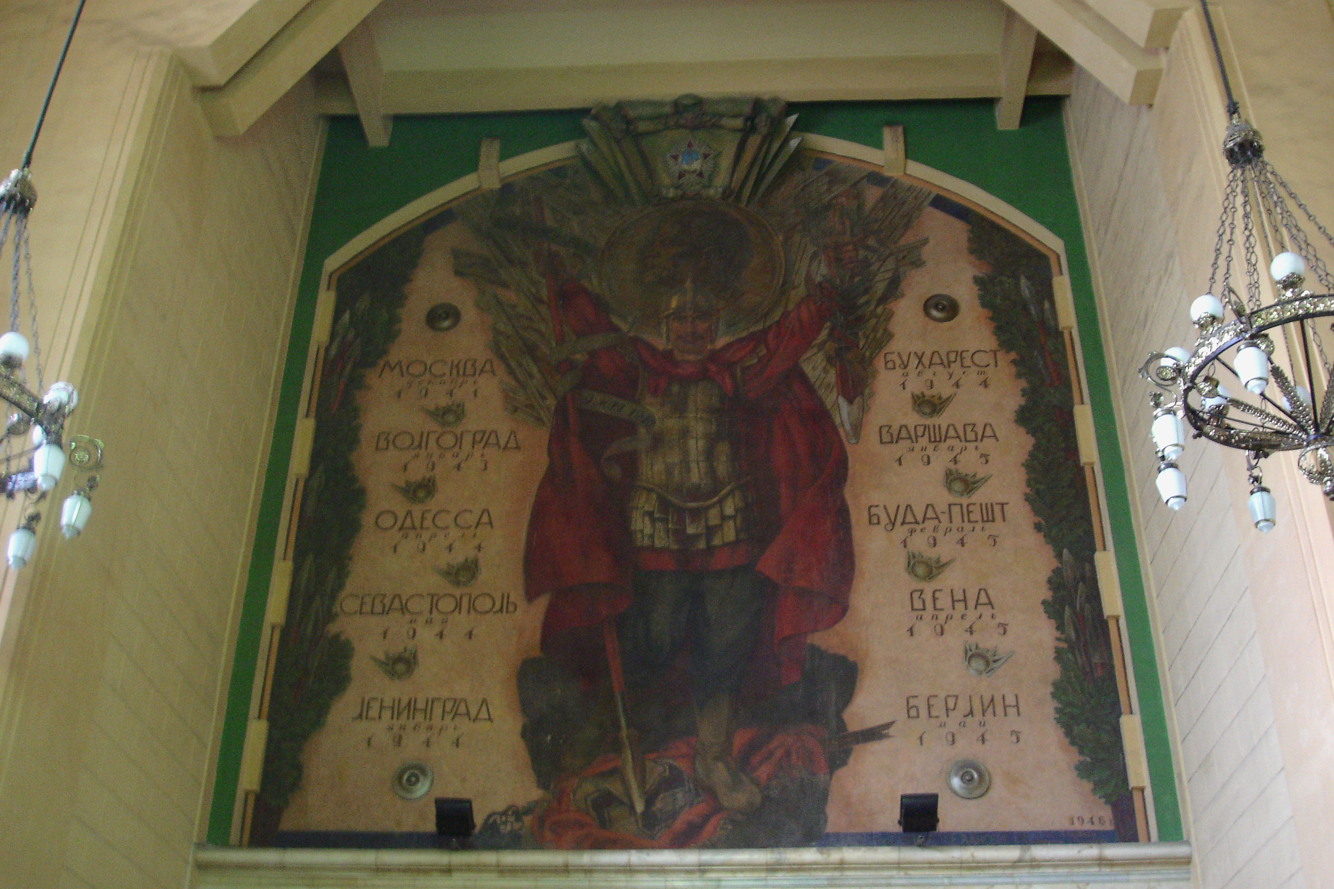 Kazansky rail terminal, Moscow. Detail of design of the main entrance left dome wall